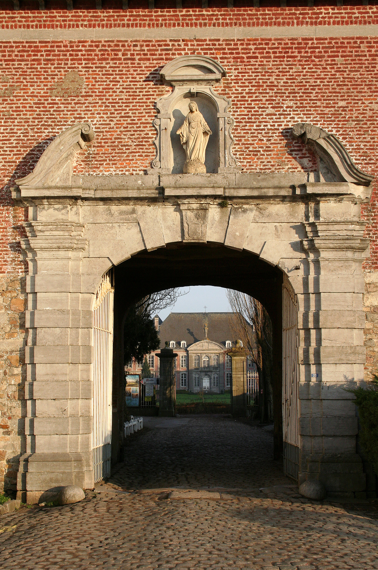 Vellereille-les-Brayeux (Belgium), porch of the Bonne Espérance abbey.